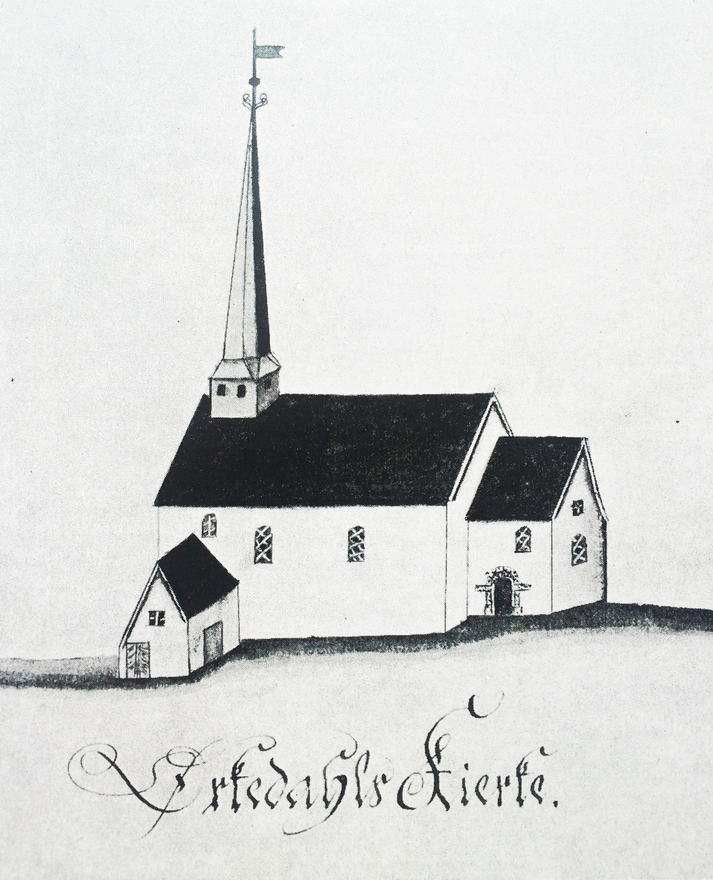 The medieval stone church on Grøtte, Orkdal in Norway. It no longer exists. It was partly torn down, partly changed, when a new and larger church was built in the late 19th century